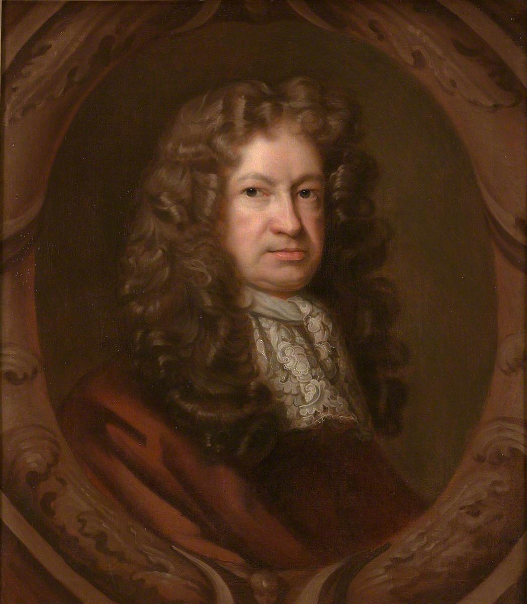 Beale, Mary; Sir William Coventry; Parliamentary Art Collection